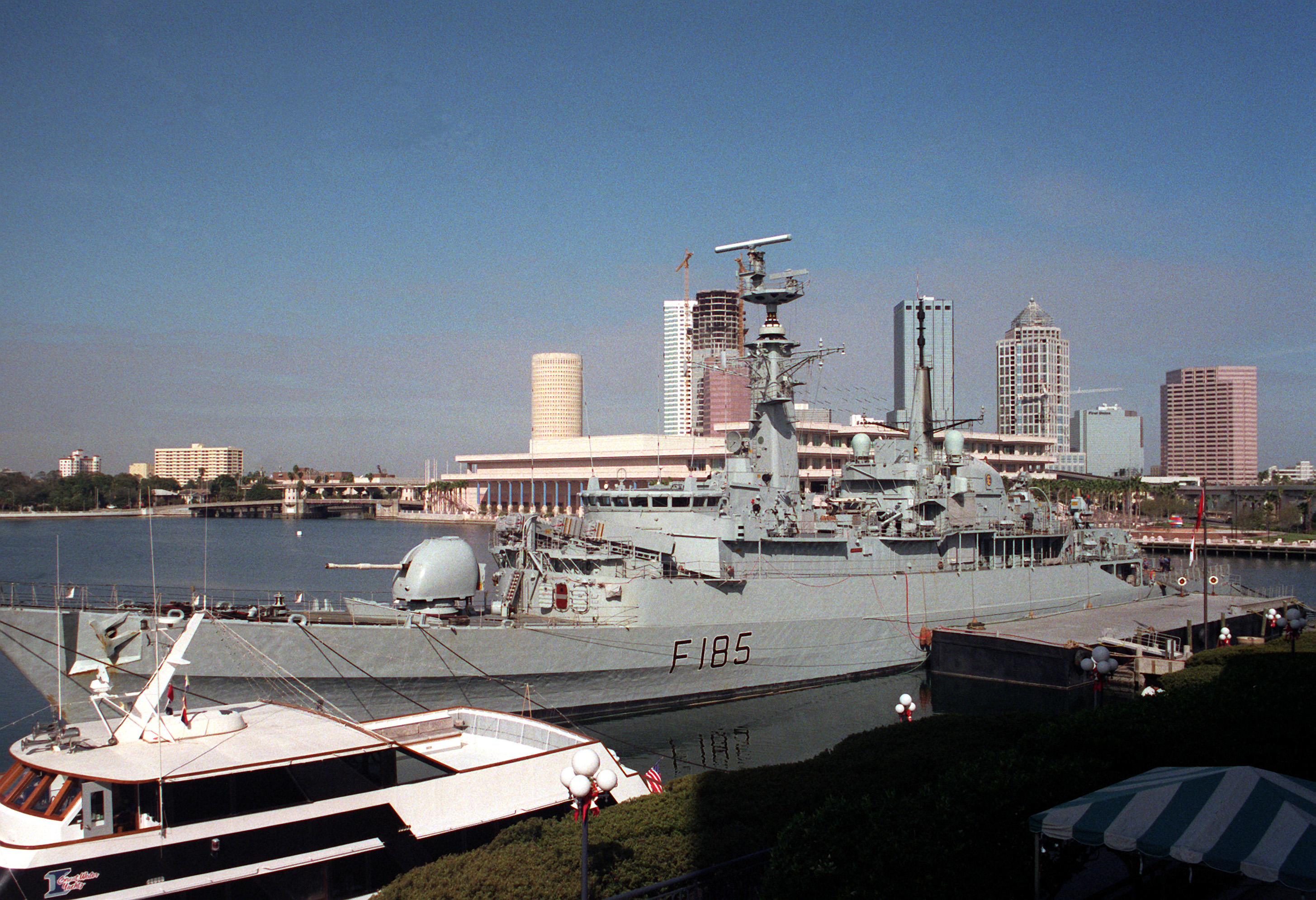 The Royal Navy frigate HMS Avenger (F185) at Tampa Bay, Florida (USA), in 1992.